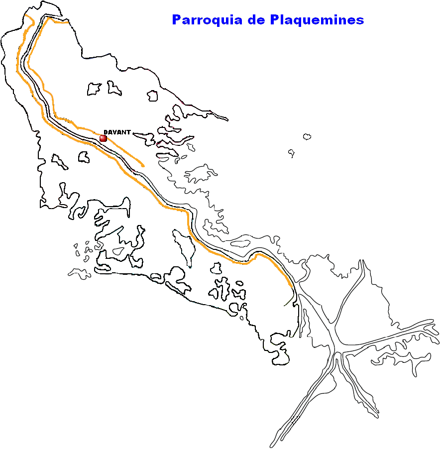 Davant Map Locator